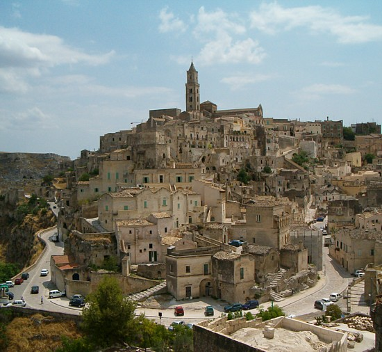 Matera picture taken by user:Idéfix july 2003